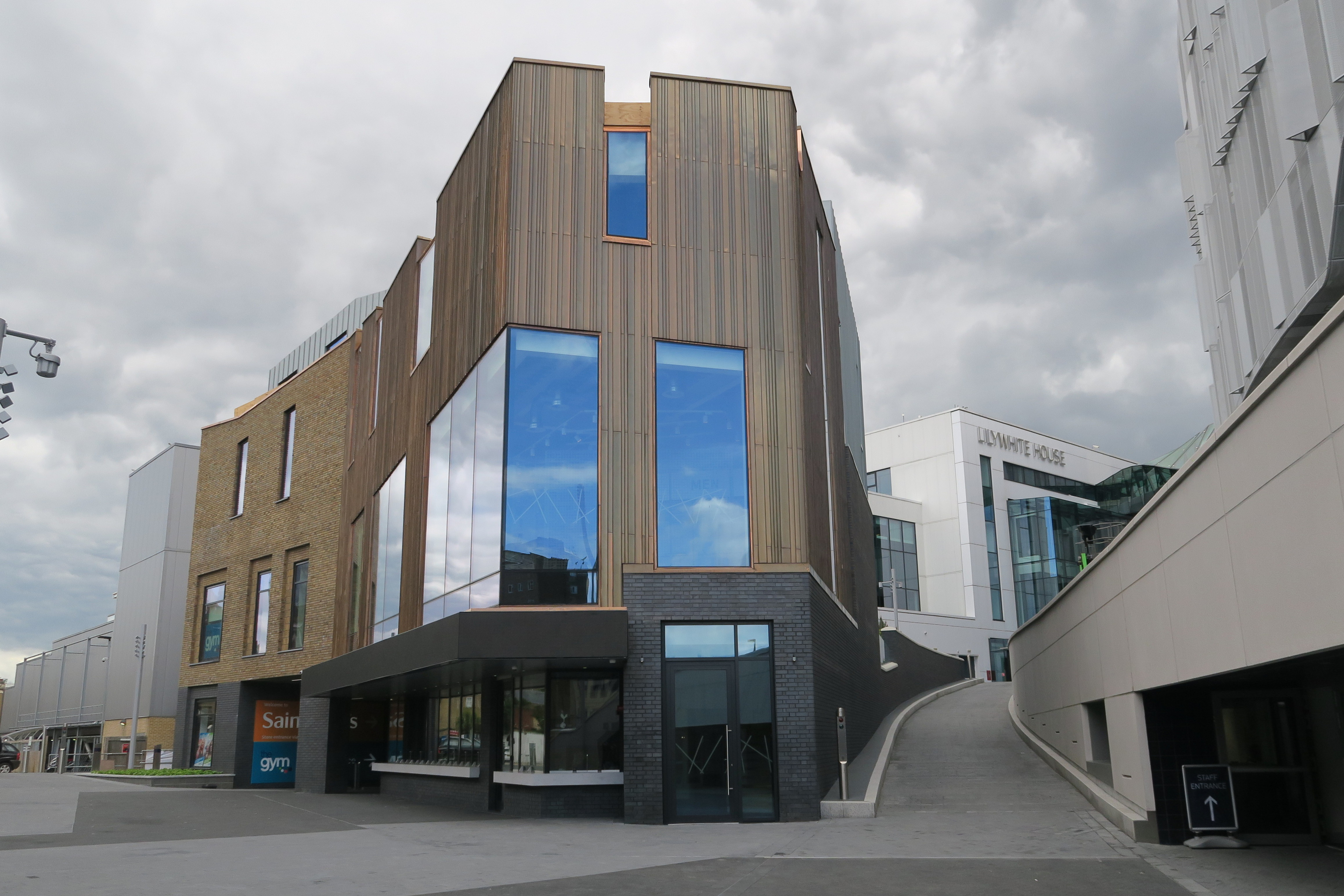 Paxton building at Tottenham Hotspur Stadium. It is the ticket office of the stadium and there is also a shop in the floors above